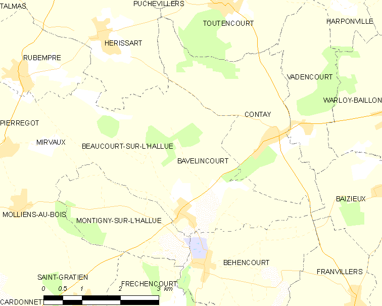 Map of French municipality Bavelincourt